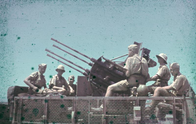 Information added by Wikimedia users.*